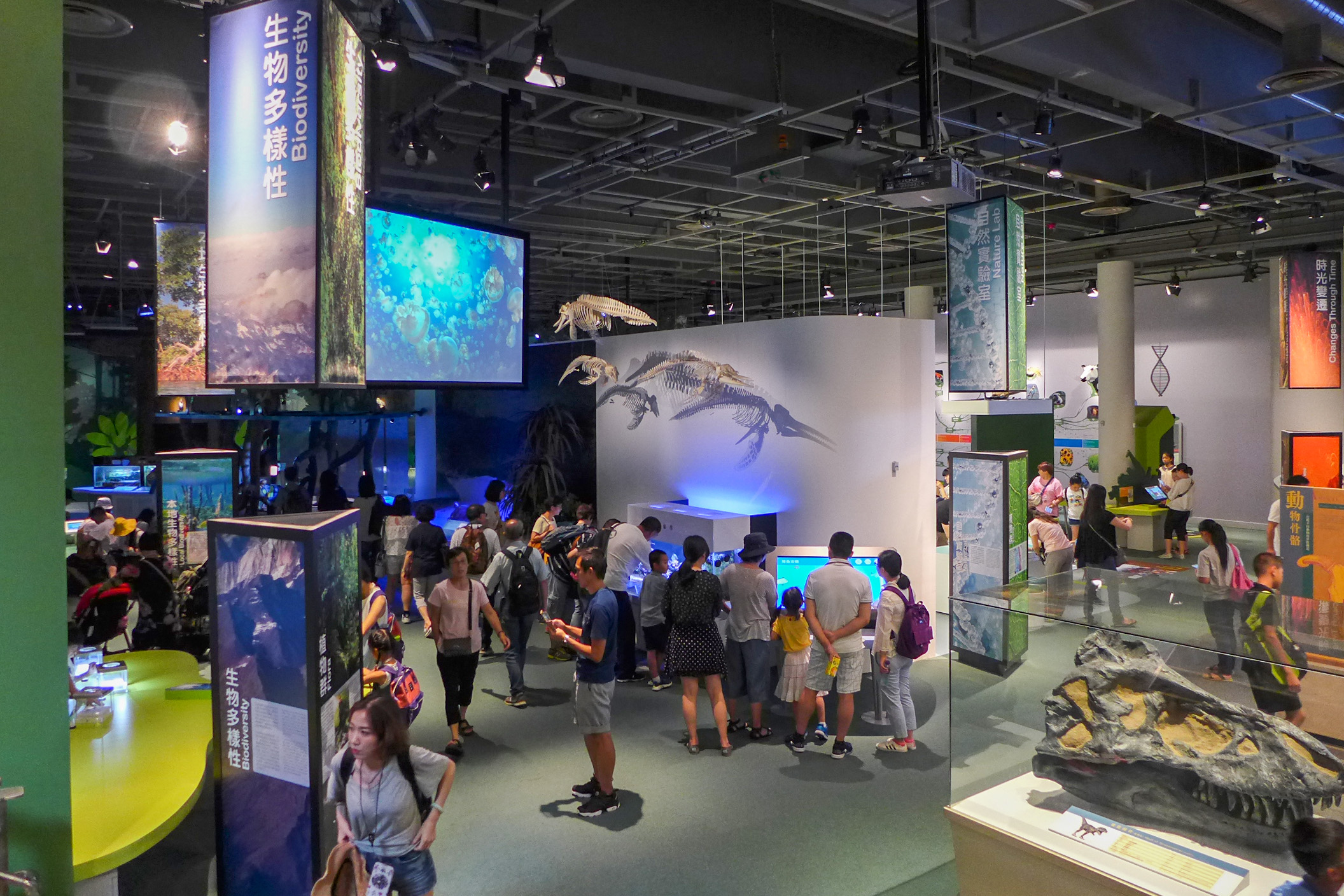 Hong Kong Science Museum Biodiversity Gallery